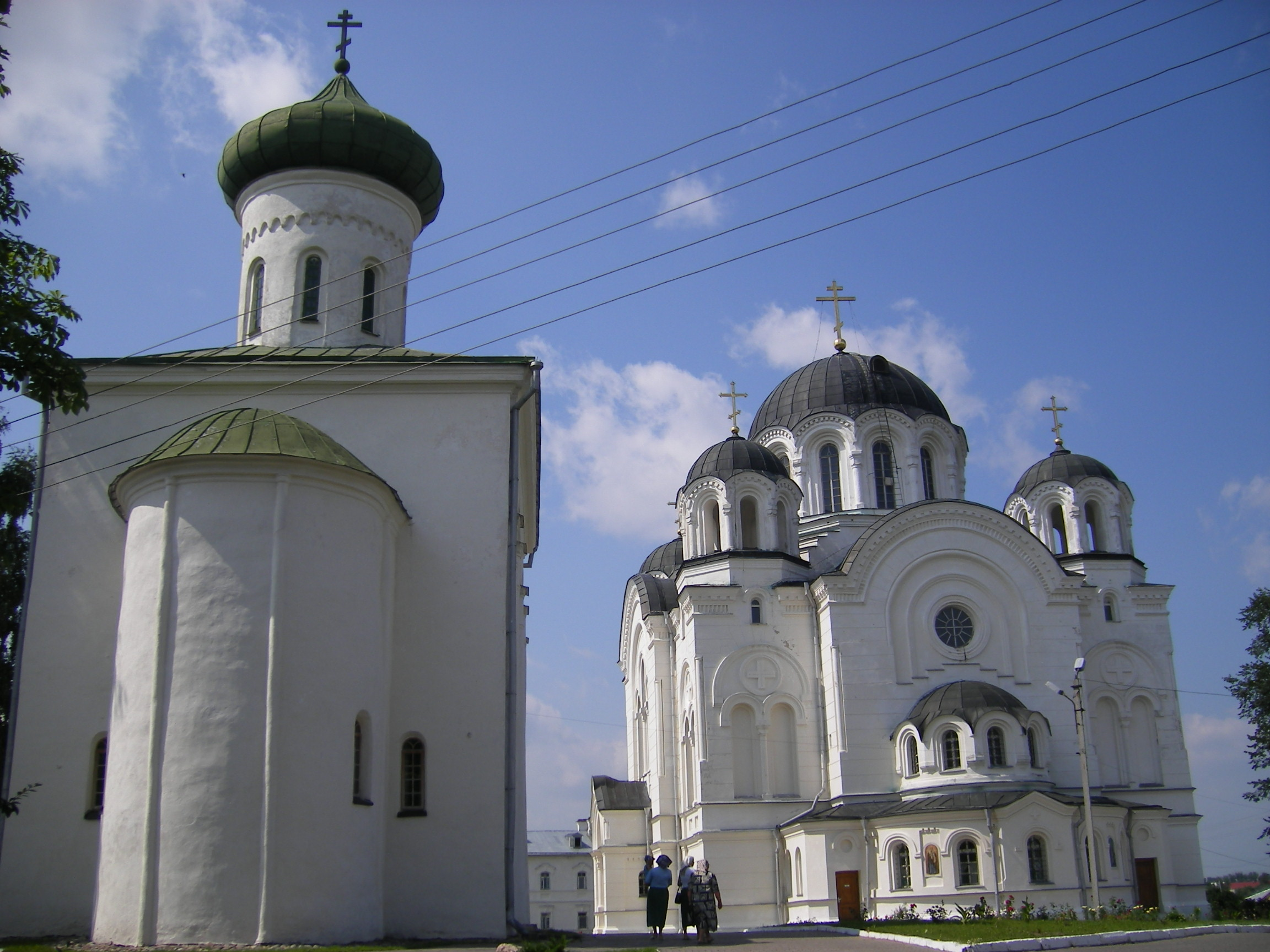 St. Euphrosine monastery